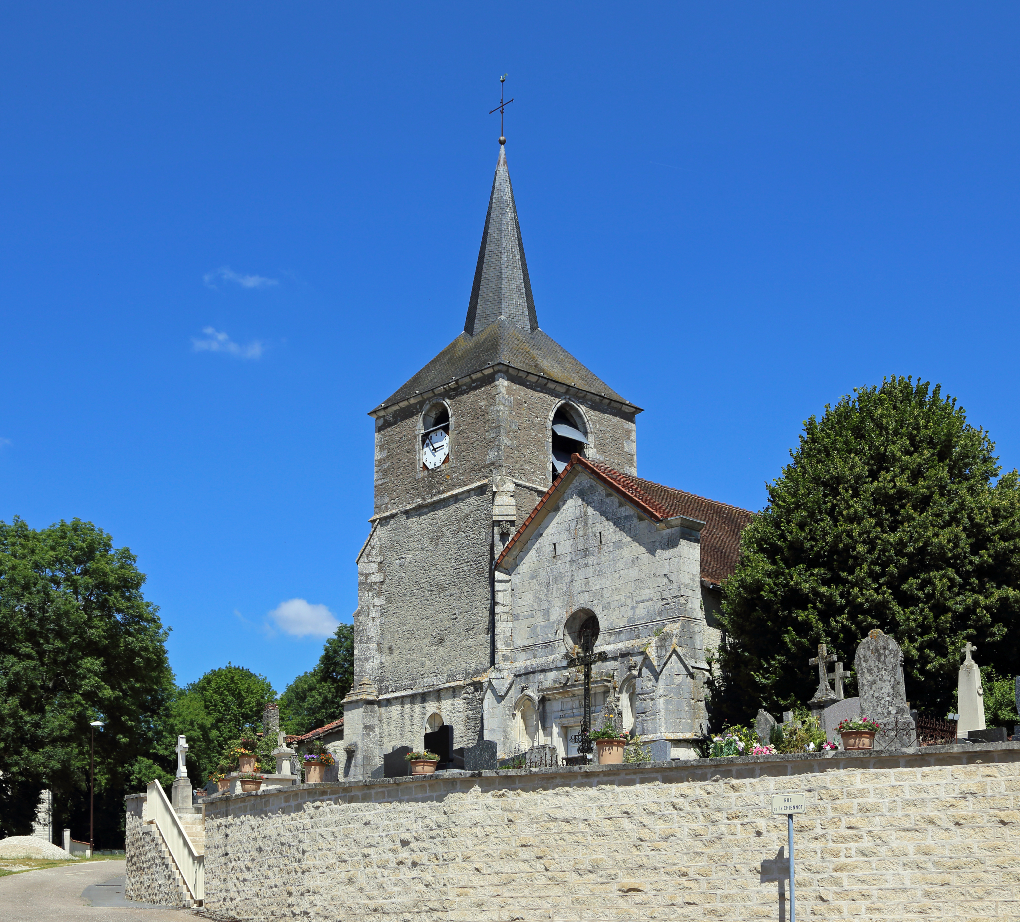 Rouvres-les-Vignes (Aube department, France): Saint-Maurice church .